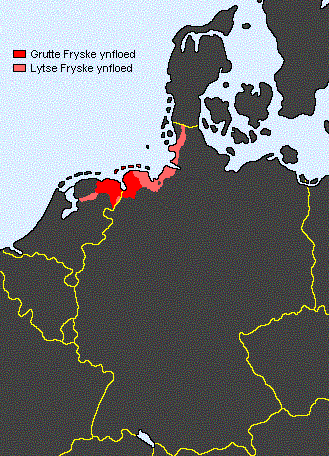 Map of the Friso-Saxon varieties